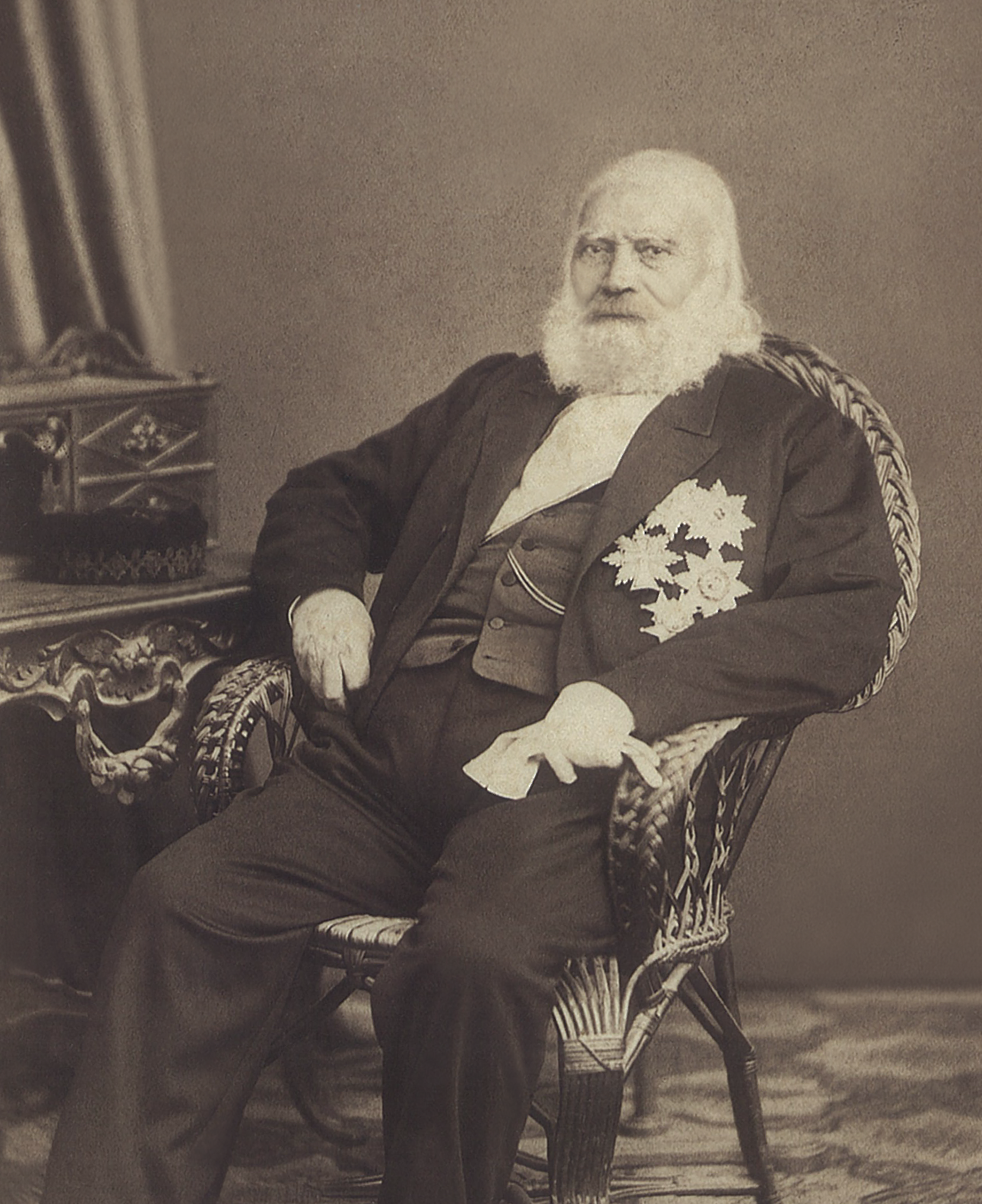 Constantine Kanaris or Canaris (Greek: Κωνσταντίνος Κανάρης; 1793 or 1795 – 2 September 1877)